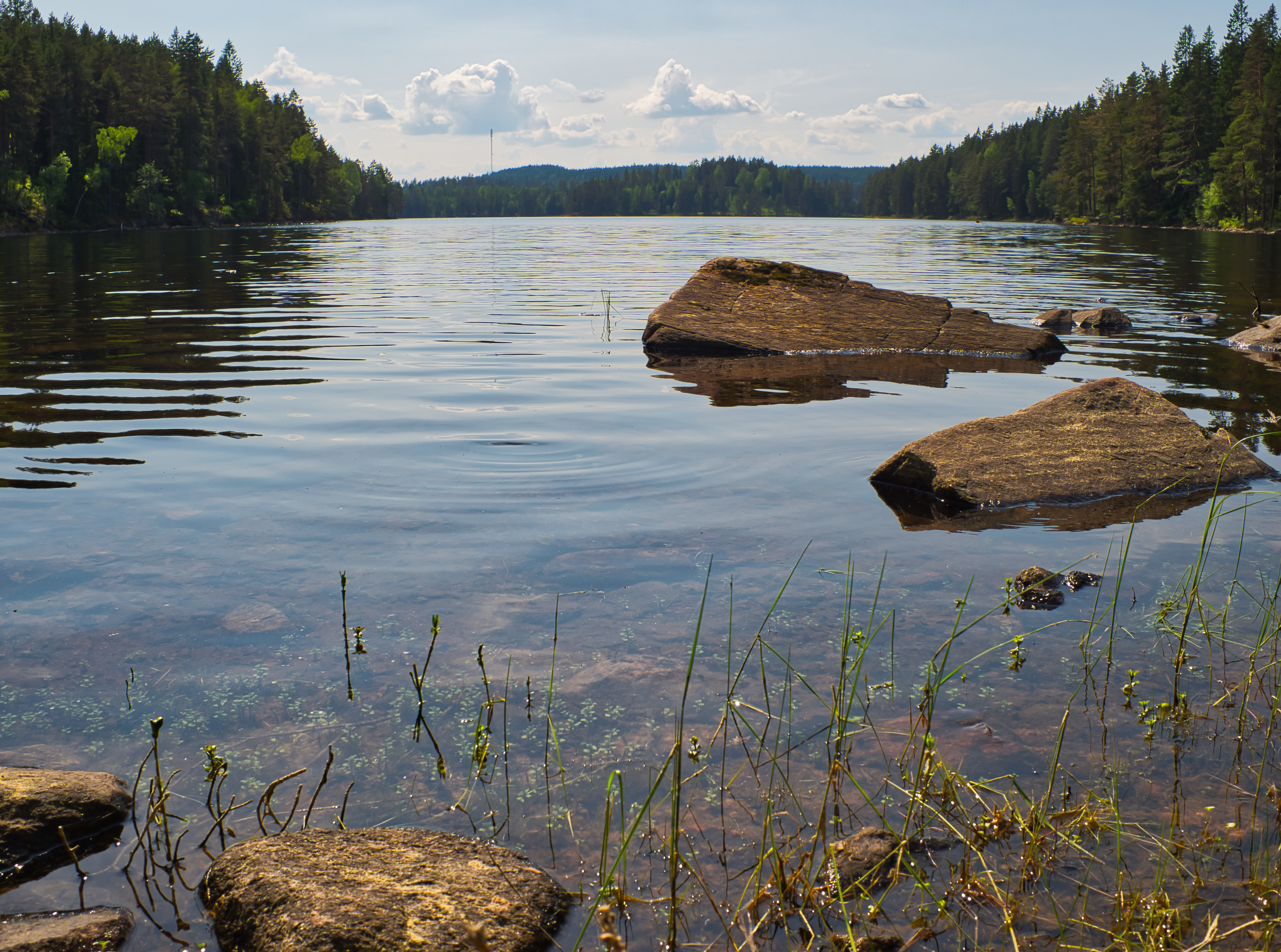 Photo taken in Svarthavet nature preserve.